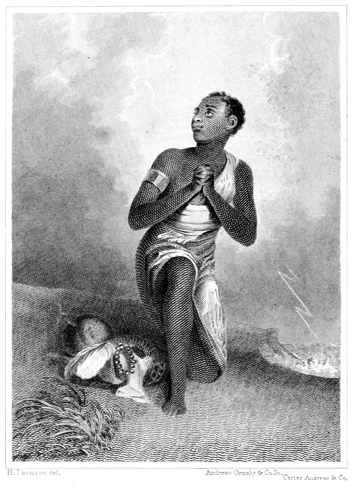 An Appeal in Favor of that Class of Americans Called Africans: frontispiece